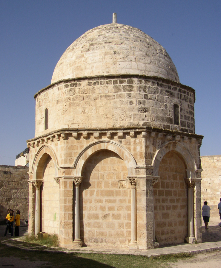 Chapel of the Ascension - Himmelfahrtskapelle - in Jerusalem